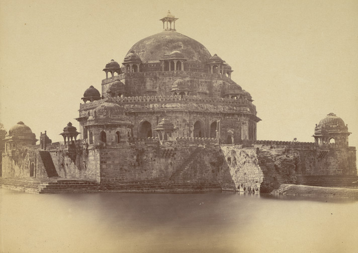 Sher Shah Suri's Tomb, Sasaram, 1870 photograph.